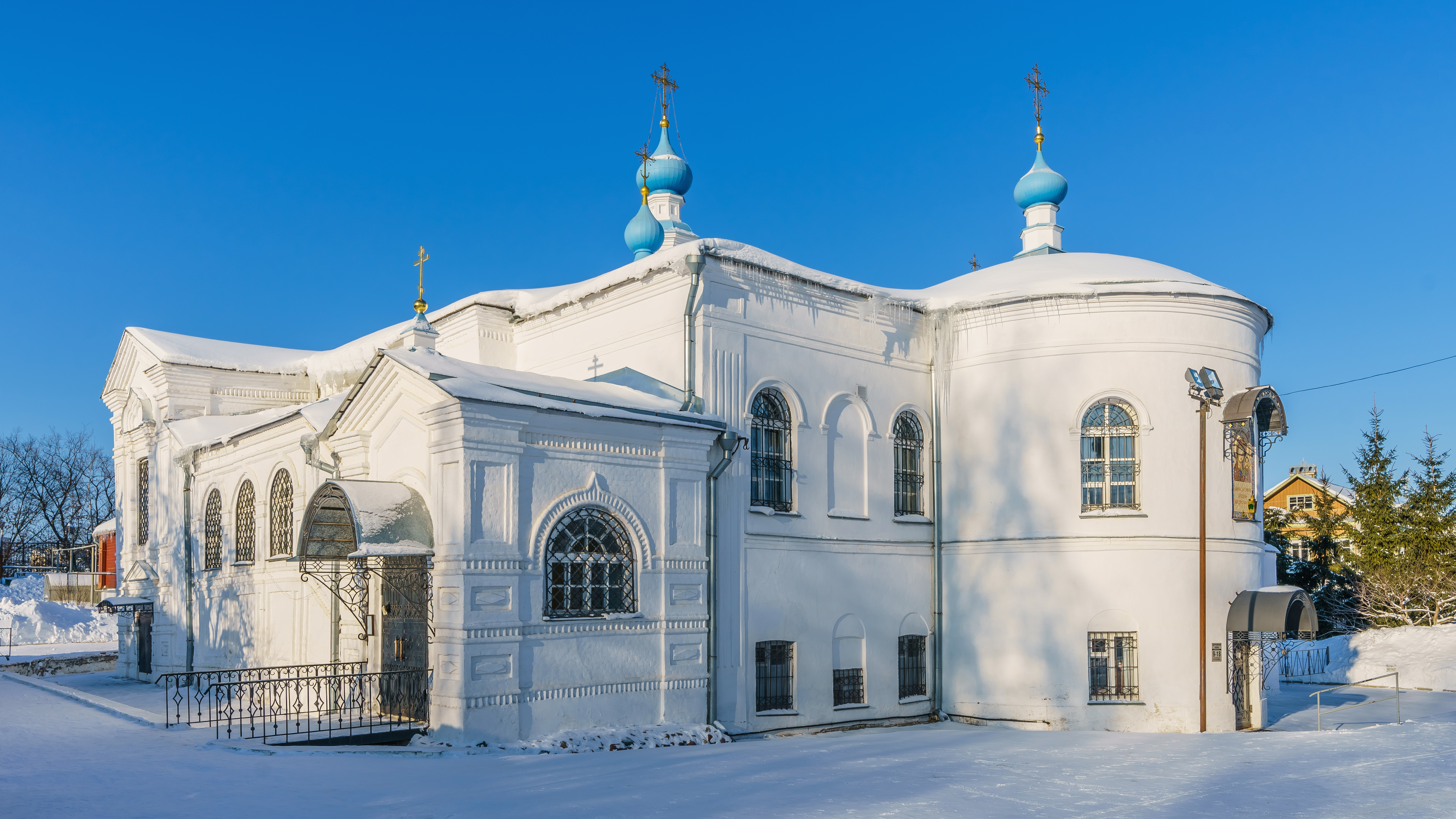 Knyaginin Monastery in Vladimir, Russia